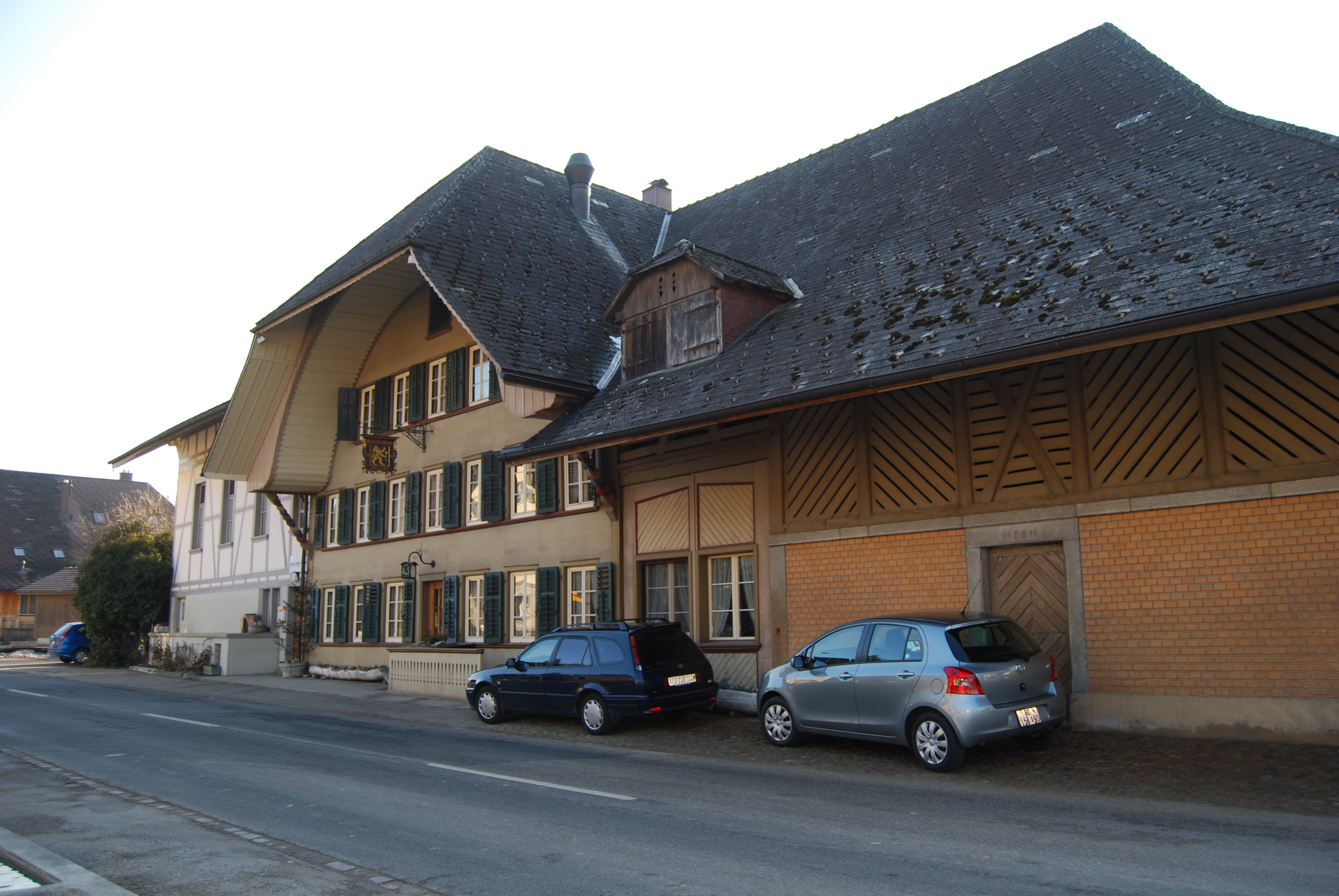 Ursenbach, canton of Bern, SwitzerlandEsperanto: Ursenbach, Kantono Berno, Svislando